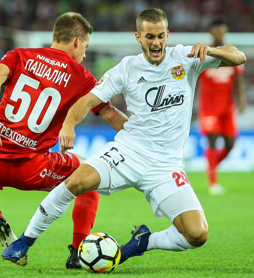 Goran Čaušić with FC Arsenal Tula in a game against FC Spartak Moscow.